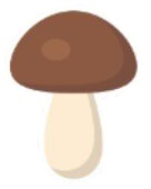 Ilustration of a mushroom.